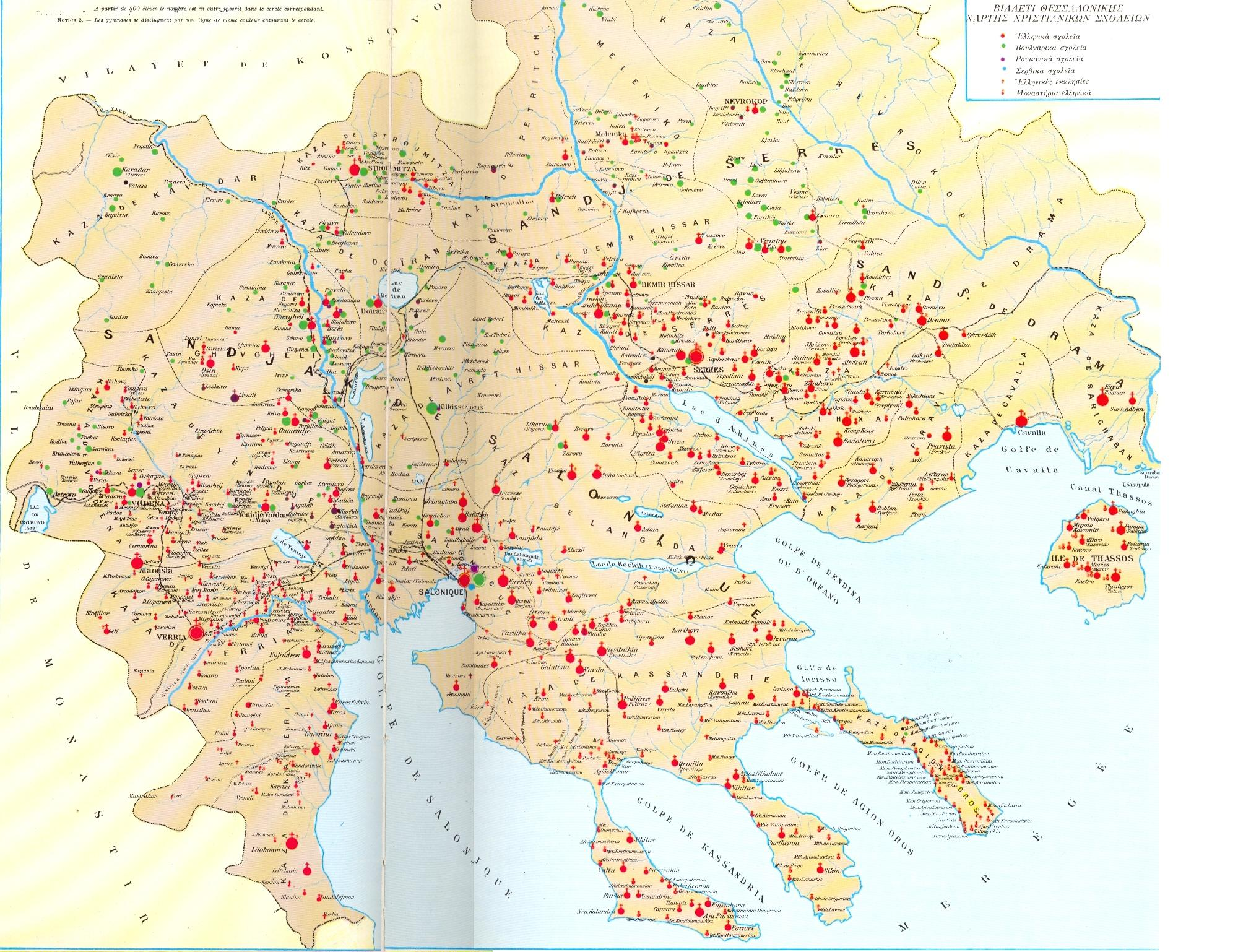 Map of the Italian Instituto Geografico de Agostini, showing the distribution of schools, churches, monasteries in the Ottoman vilayet of Saloniki.